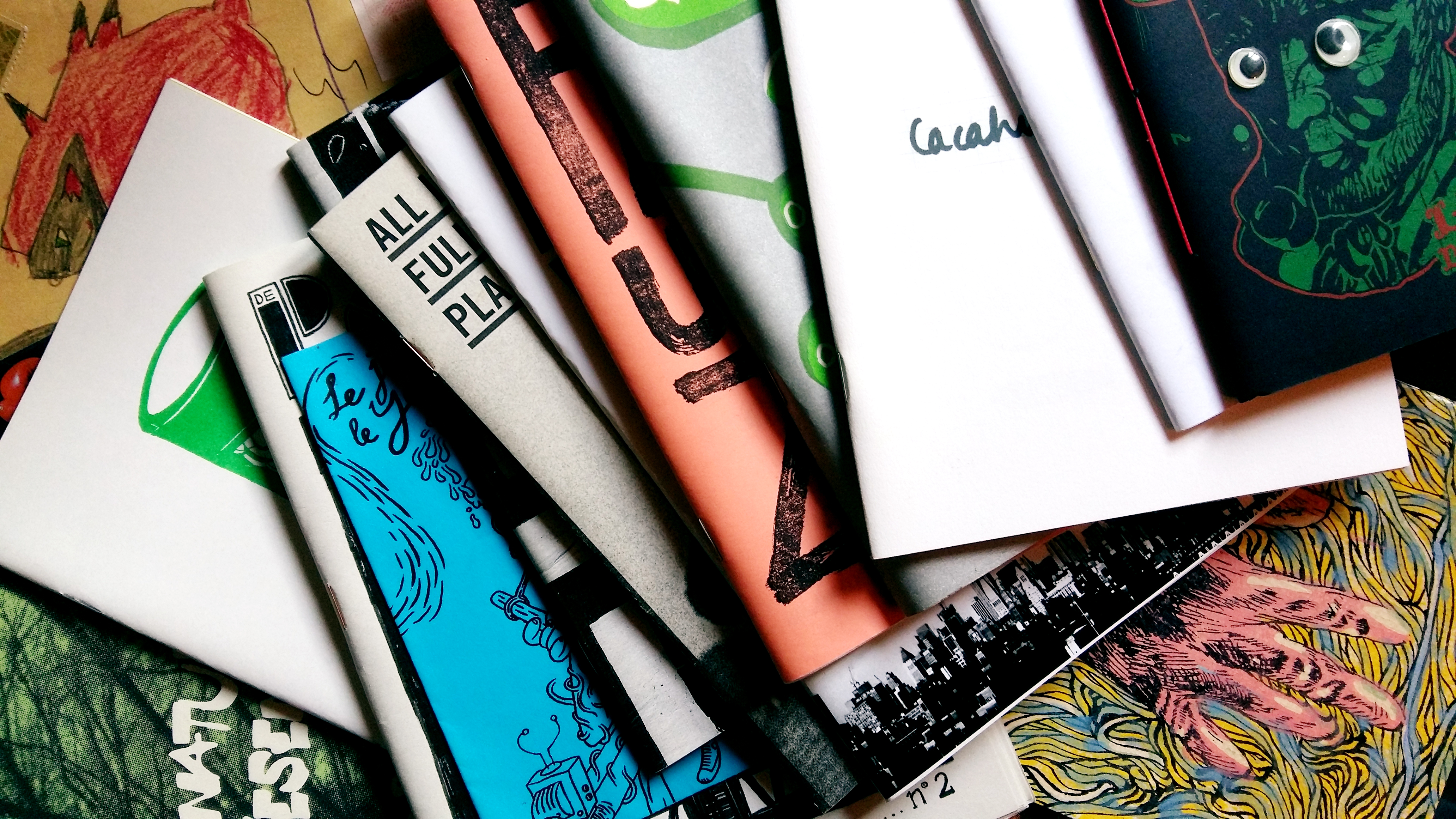 A personal collection of graphzines (graphic zines) from several countries (Japan, France, Spain, Norway, USA).